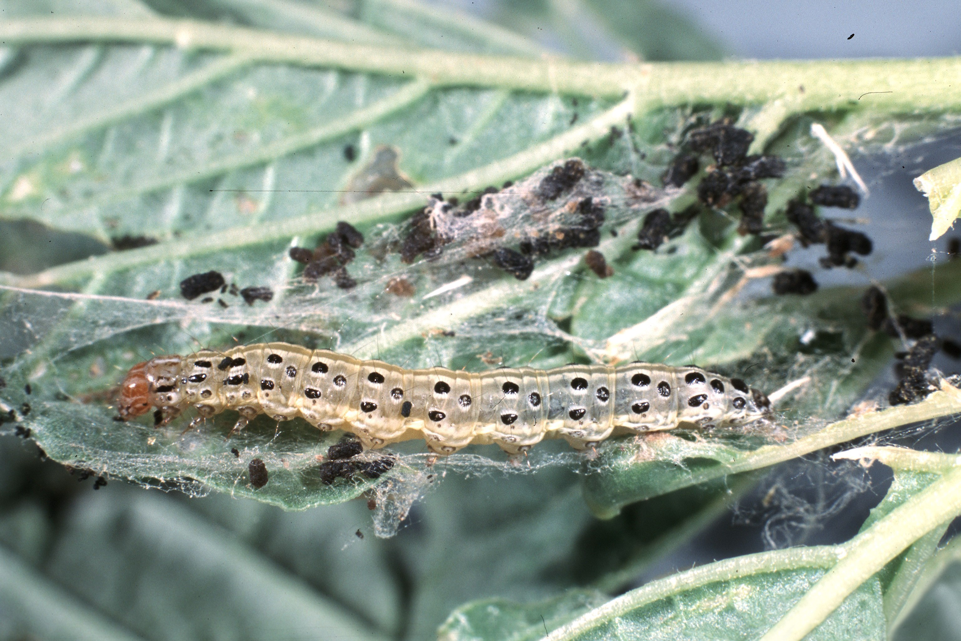 Achyra rantalis Guenee Common Name: garden webworm Photographer: Alton N. Sparks, Jr., University of Georgia, United States Descriptor: Larva(e) Description: feeds on beans and peas Image taken in: United States